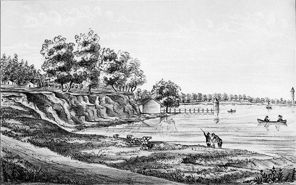 Toronto Harbour in 1820, showing piers and docks.